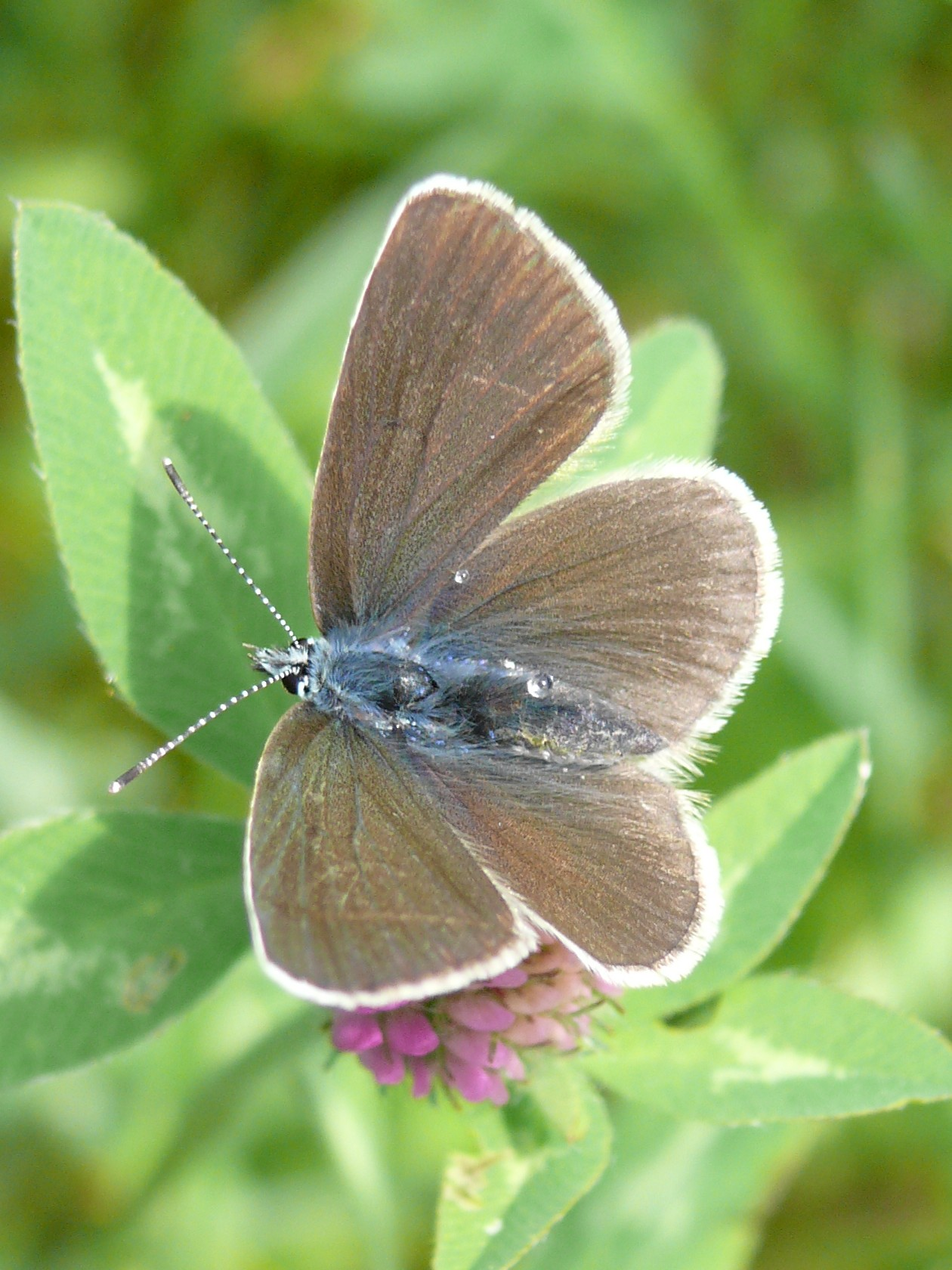 female Mazarine Blue, South Tyrol